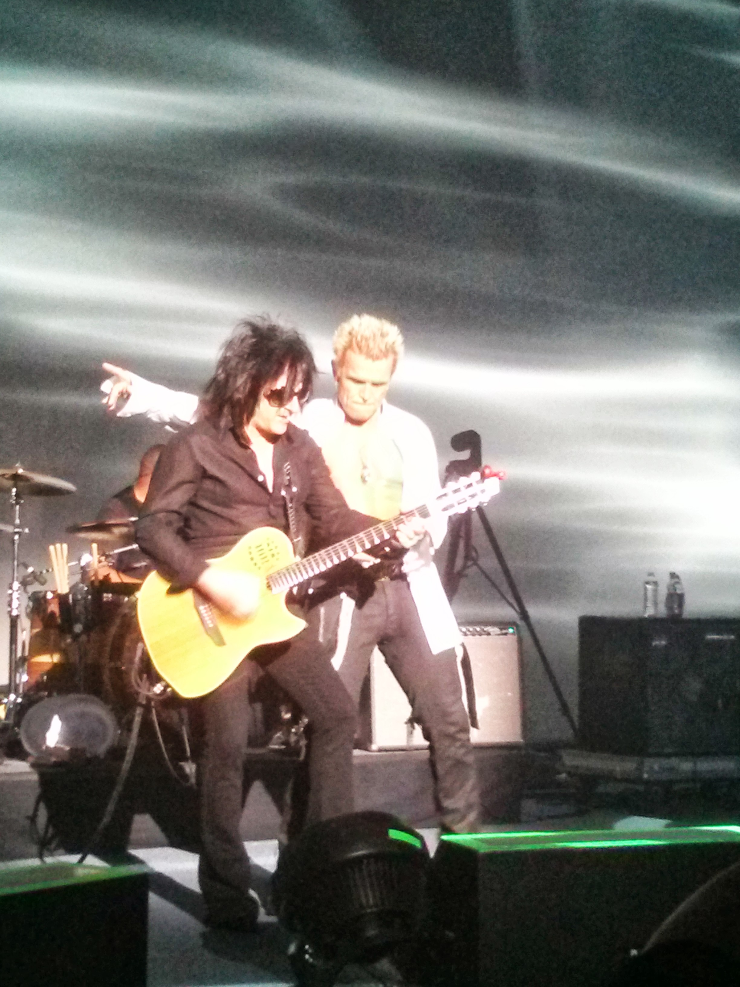 Rocking it at Google I/O 2013